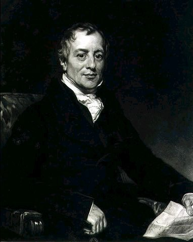 David Ricardo (1772-1823), british economist